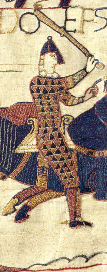 Detail of image:Odo_bayeux_tapestry.png, depicting Odo of Bayeux